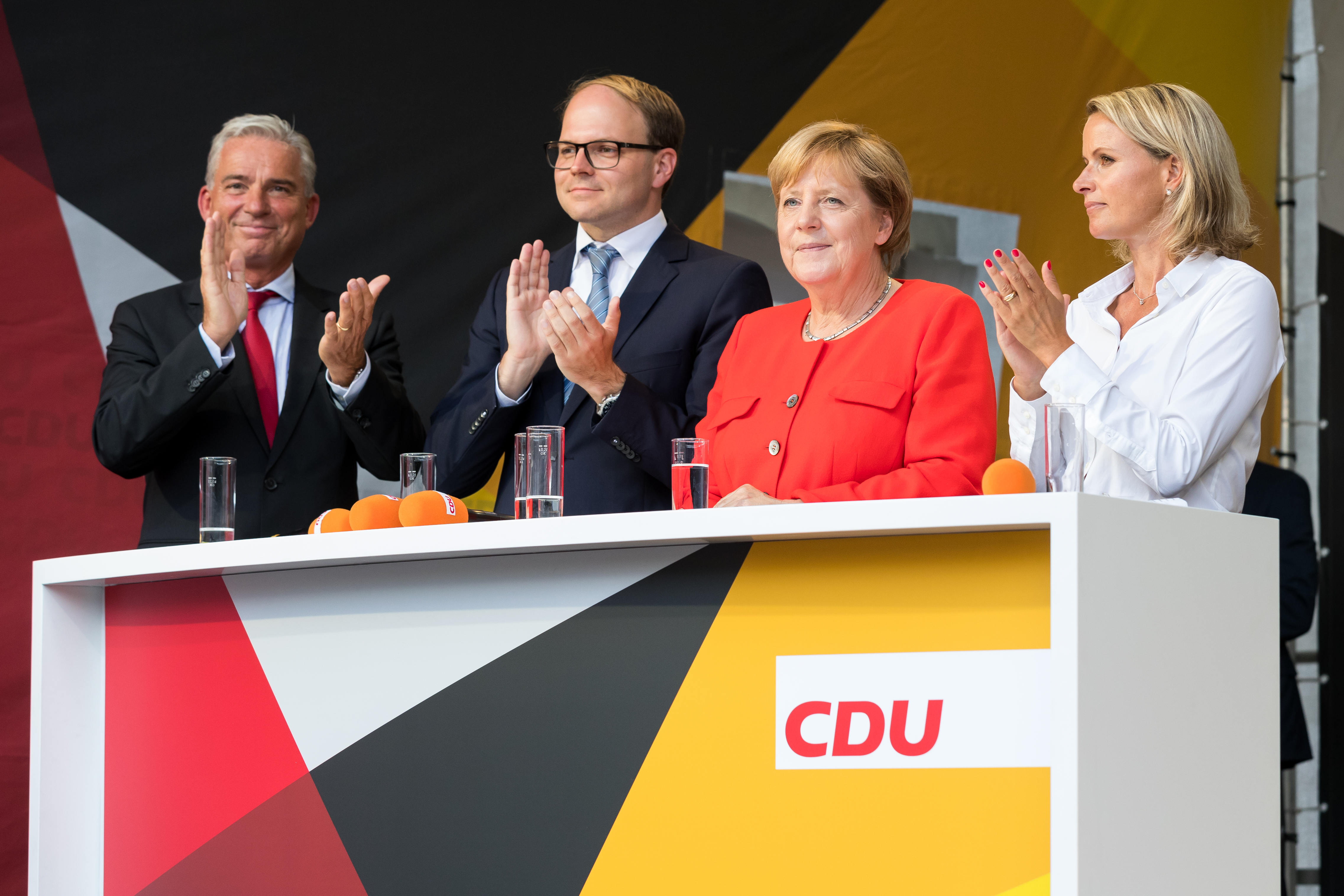 Angela Merkel during CDU Wahlkampf Heidelberg at Universitätsplatz Heidelberg, Heidelberg, Baden-Württemberg, Germany on 2017-09-05. From left to right: Thomas Strobl, Alexander Föhr, Angela Merkel, Claudia von Brauchitsch